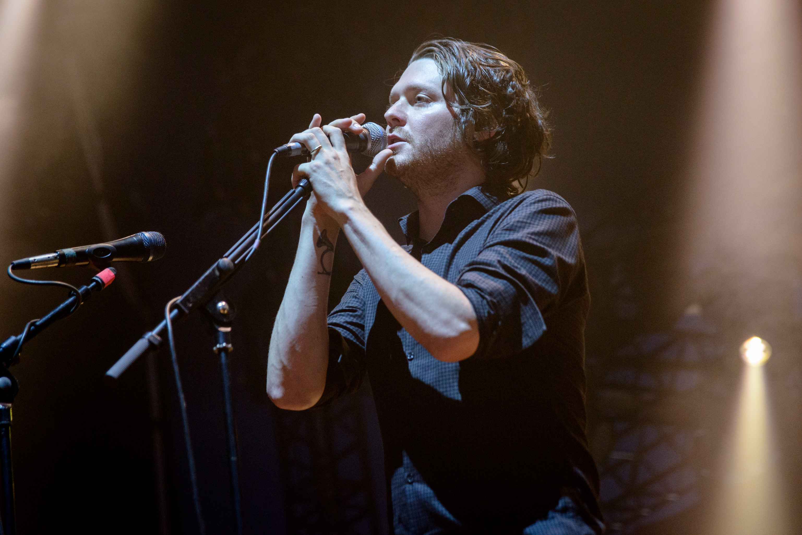 Beirut @ Munich 2016